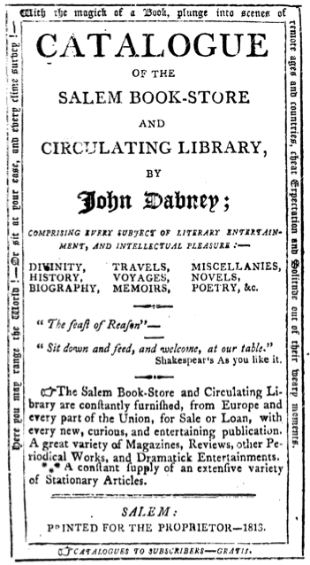 Title page of John Dabney's "Catalogue of the Salem Book-store and Circulating Library" (Salem: printed for the proprietor, 1813)